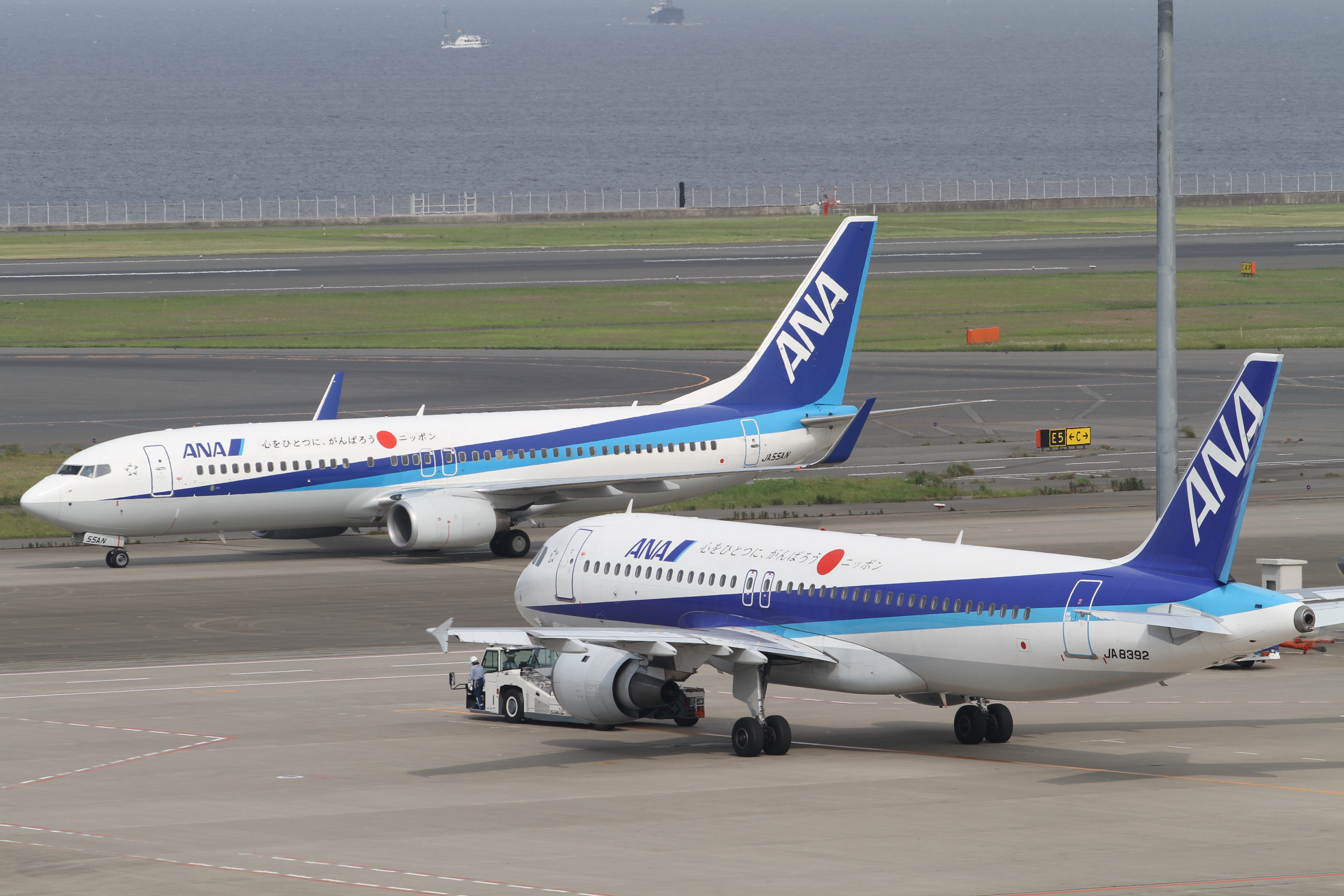 Tokyo International Airport, Airbus A320-211, c/n:328, All Nippon Airways